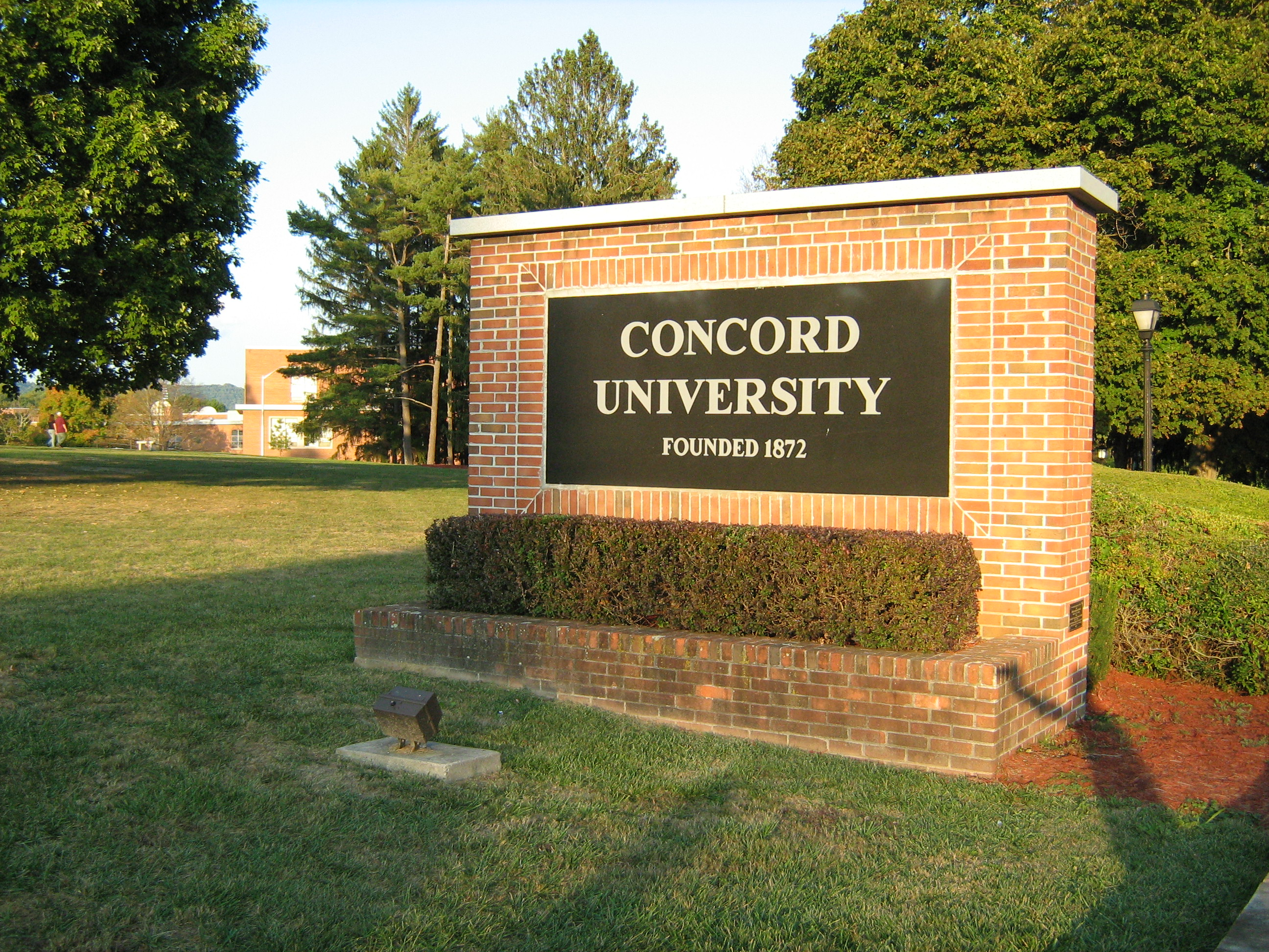 Concord University - Entrance sign - in Athens, West Virginia